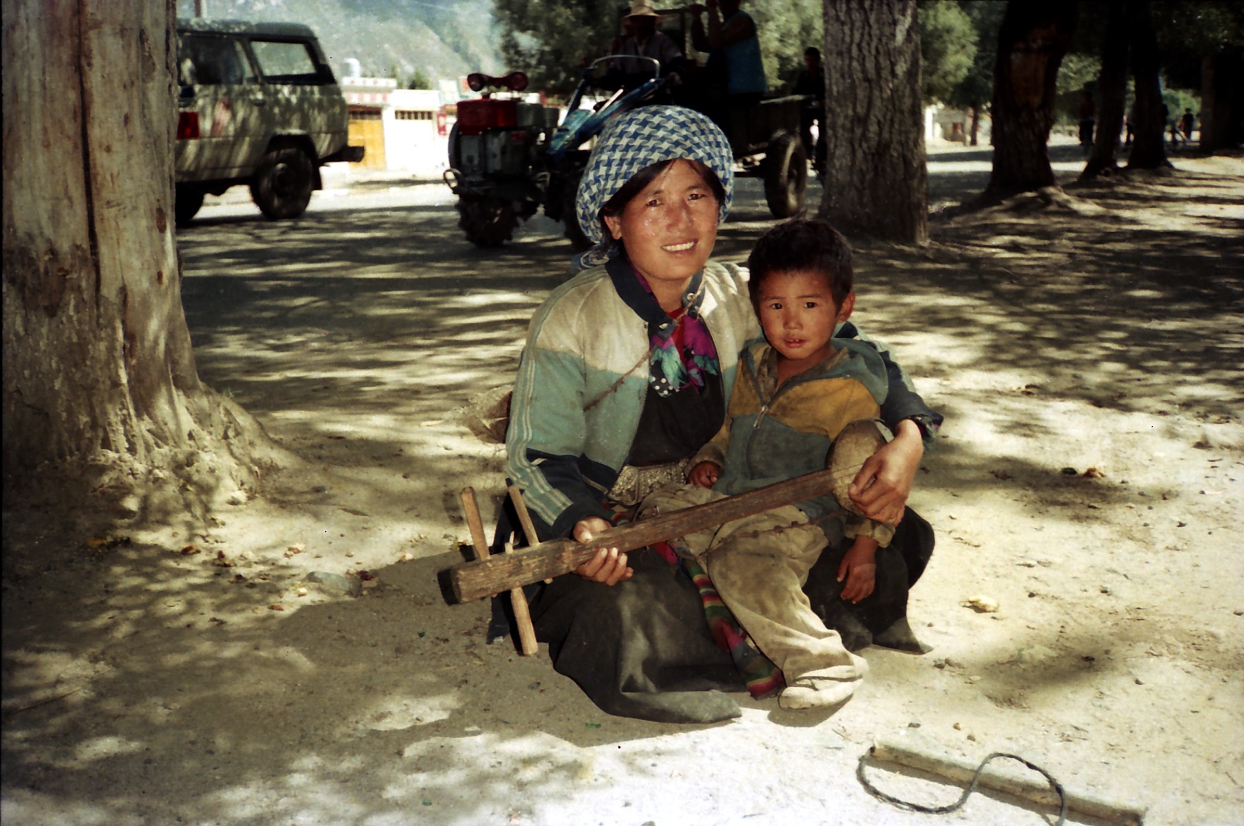 photo of a woman busking taken in Lhasa, Tibet in 1993